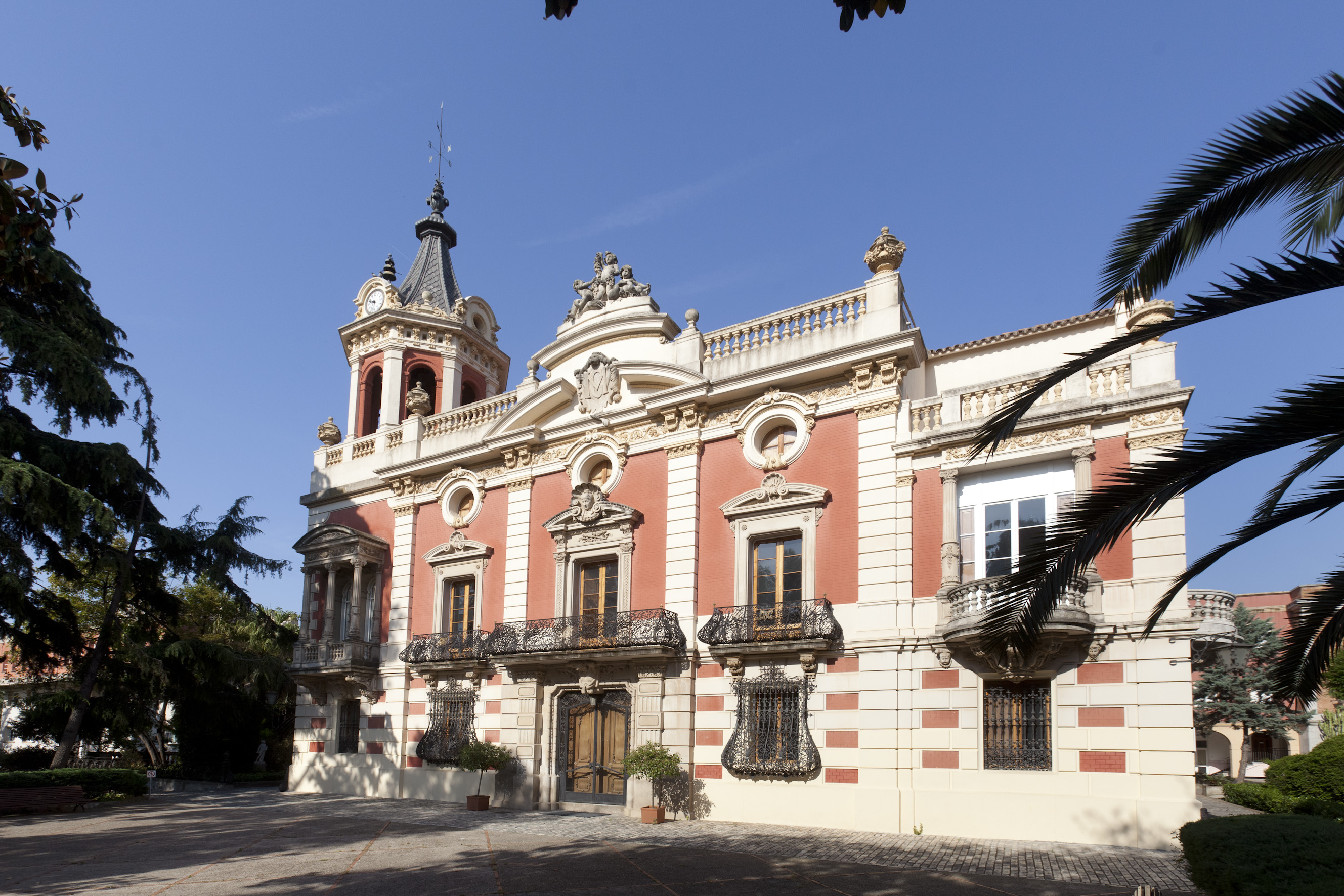 Historical Routes at the Horta-Guinardó District Administration in Barcelona This image was provided to Wikimedia Commons by the Horta-Guinardó District Administration in Barcelona as part of an ongoing cooperative project with Amical Viquipèdia. English | +/−